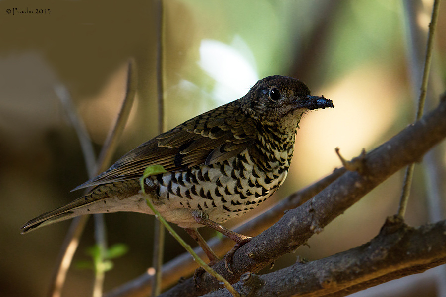 Zoothera neilgherriensis, Nilgiri Thrush, Ooty.Tamil Nadu. Obsrved this under thick indergrowth & with waste dump n it was feeding on that worms.